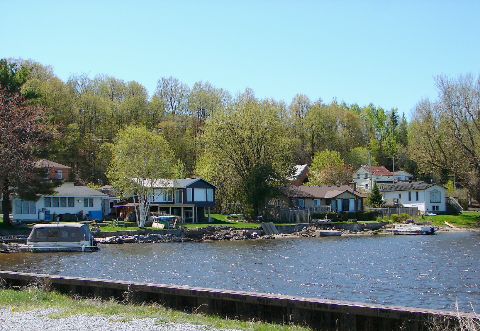 Sand Point (municipality of McNab/Braeside), Ontario, Canada